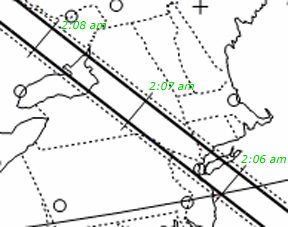 This file shows the path on the Earth's surface within which it is predicted to be able to see the occultation of Regulus by asteroid (163) Erigone. The outer lines represent the 1-sigma uncertainty boundaries - i.e., the area in which there is a 66% chance that the entire shadow will be found. This map is one of hundreds that Preston makes available as part of the International Occultation Timing Association goal of publishing predictions of asteroid occultations. for details.